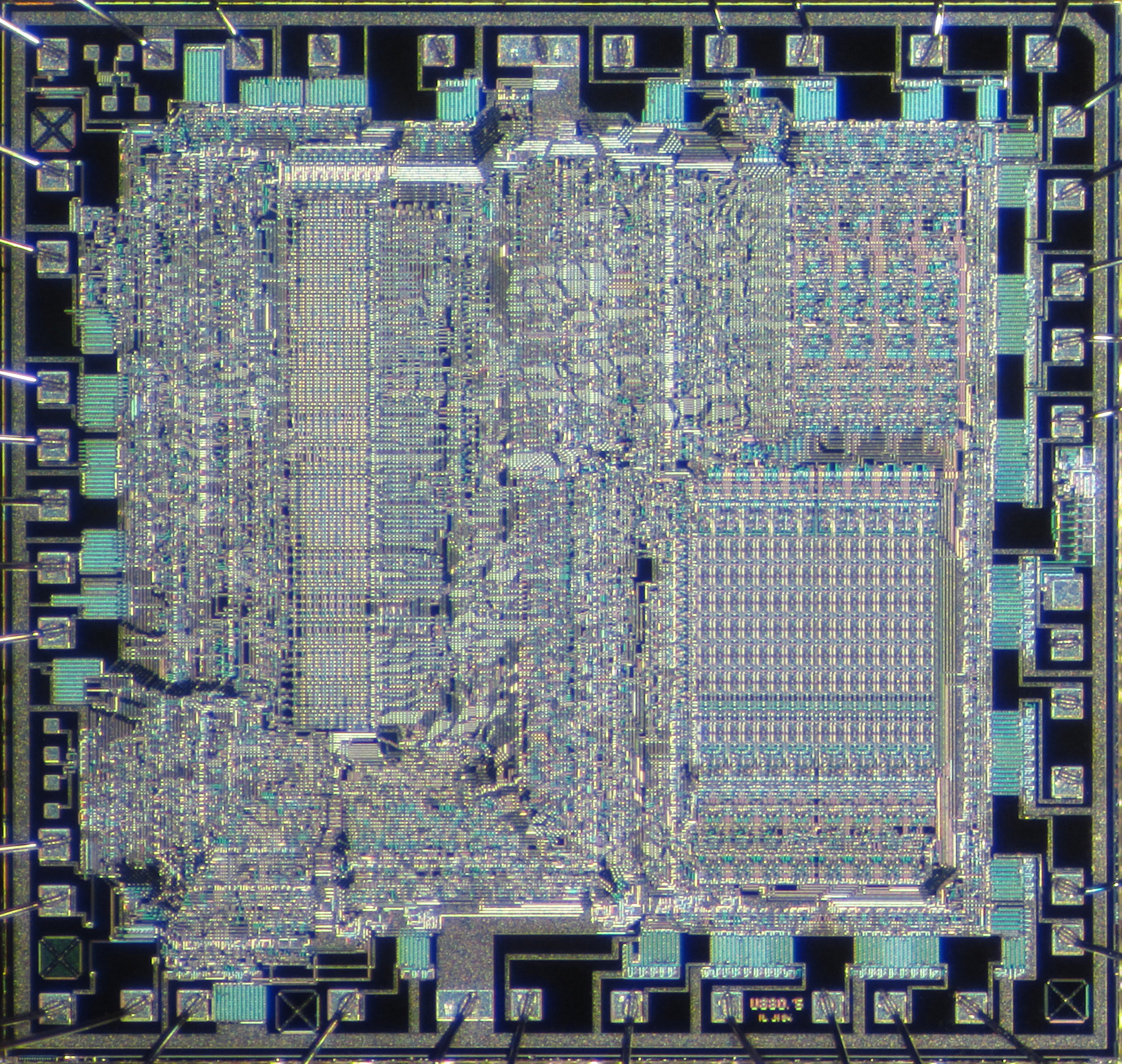 Die shot of MME 80A-CPU that is Z80-compatible microprocessor (80A-CPU, MME9201).